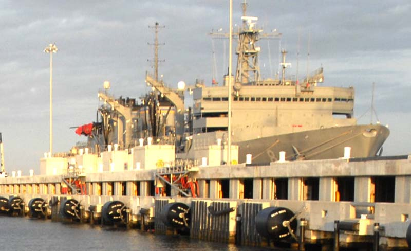 USNS Arctic (T-AOE-8) berthed after the crash of a US Army Blackhawk helicopter from the 3rd Battalion, 160th Special Operations Aviation Regiment on October 22, 2009. The wrecked helicopter is under the red tarp, top left.